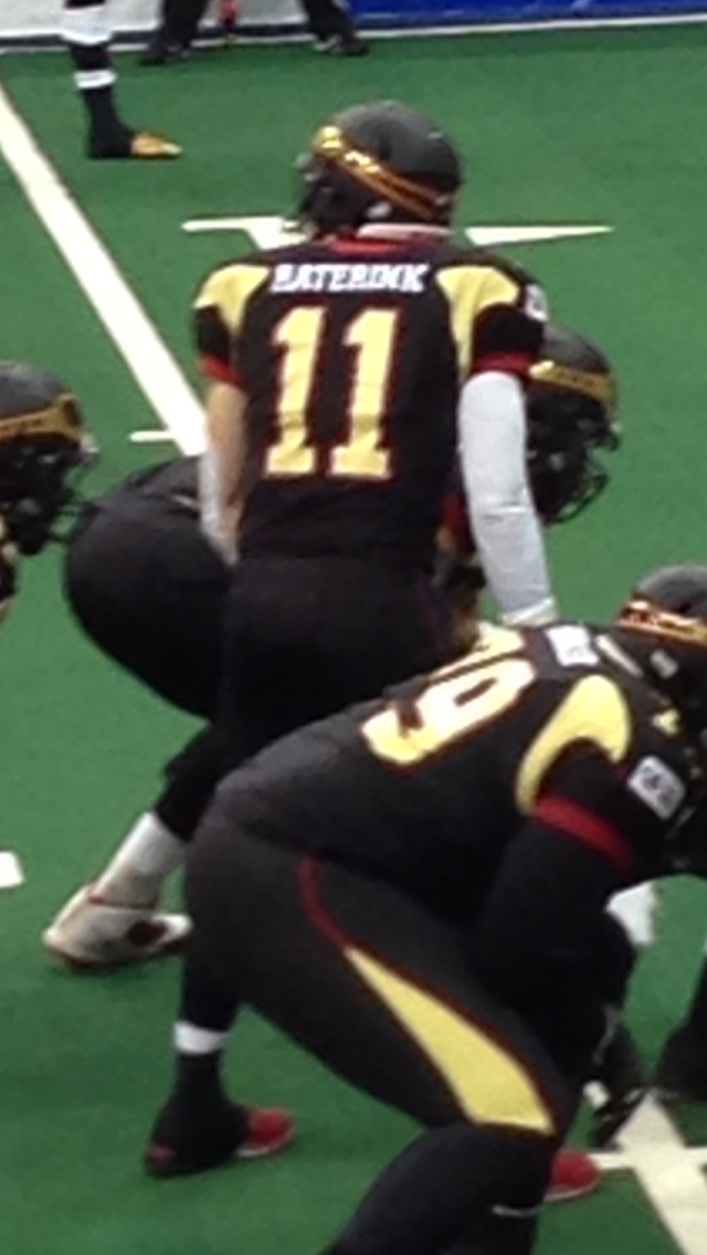 J. J. Raterink